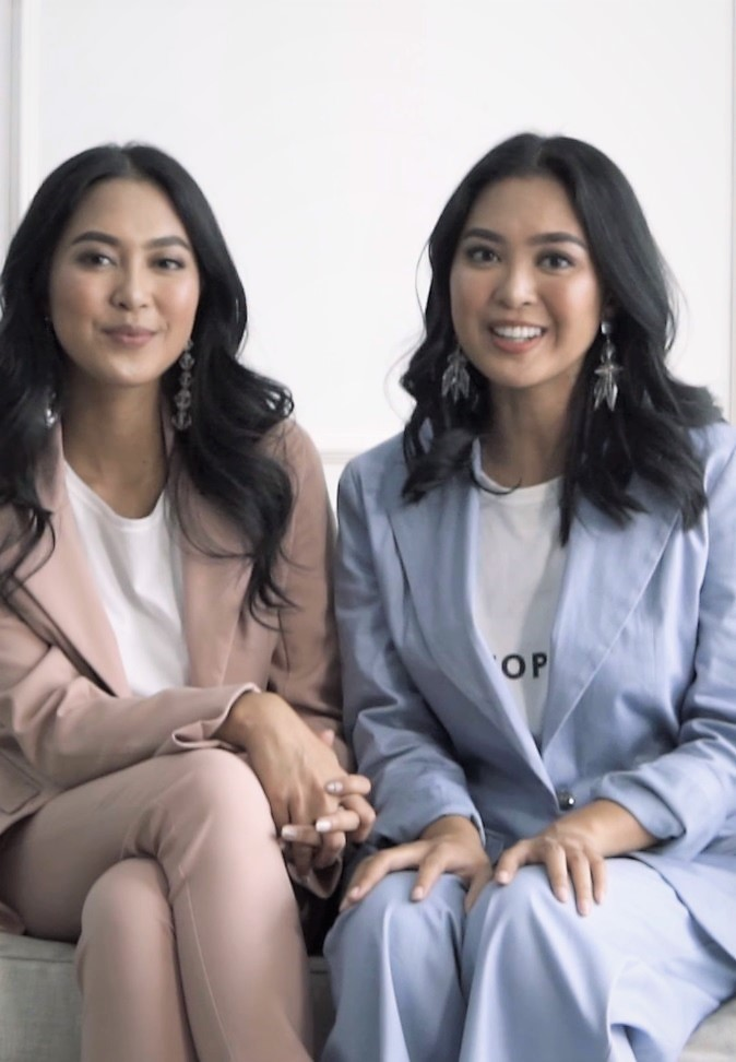 Love and Flair x Maria and Elizabeth Rahajeng We're proud to announce our collaboration with Maria Rahajeng and Elizabeth Rahajeng to create "The Unstoppable Collection"! The collection was conceived to translate the philosophies of their new book, Becoming Unstoppable, into pieces for the unstoppable woman. Check out our pages too!